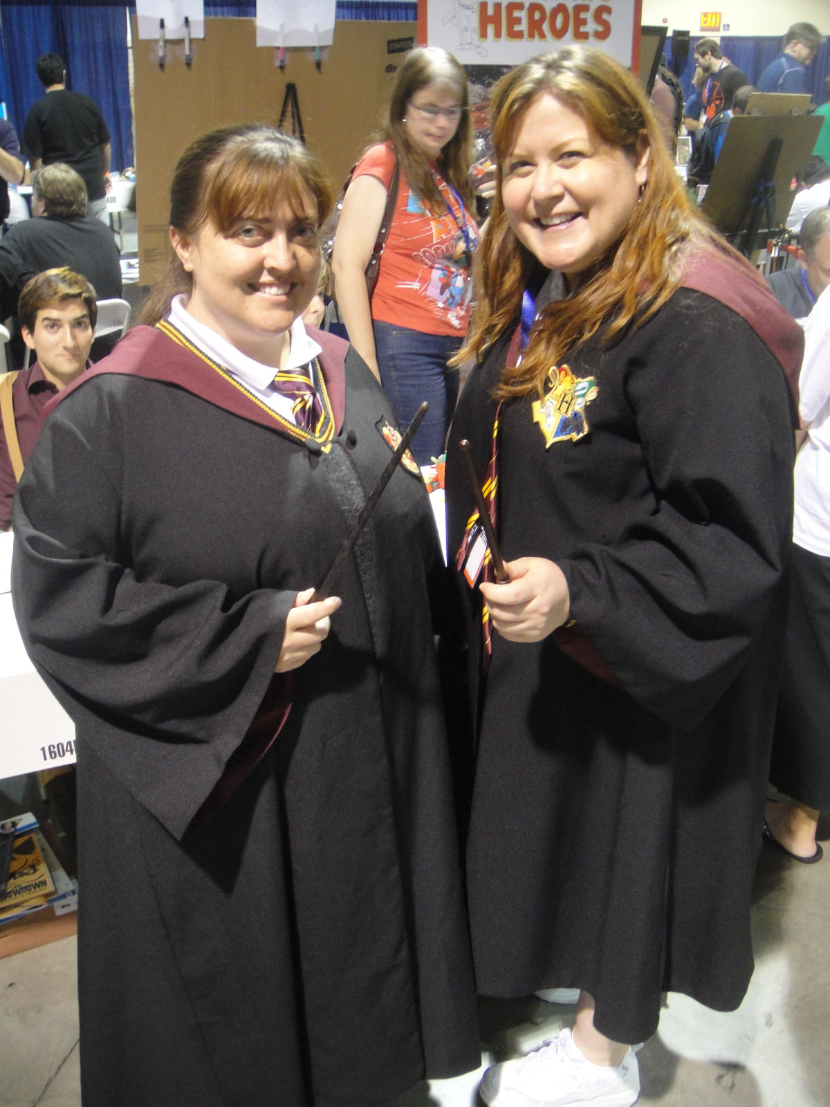 photo 2011 Pop Culture Geek taken by Doug Kline If you're interested in higher resolution versions of my images, contact me via my profile page.